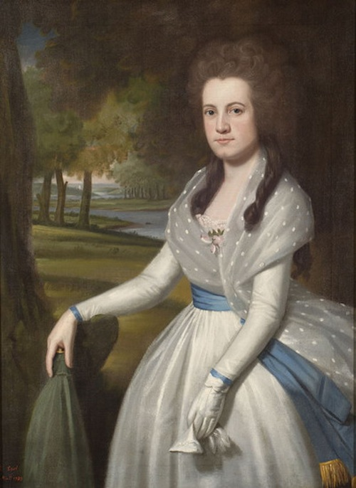 Object ID: LHS 1983-06-1 Accession #: 1983-06-1 Category: Images of People Medium: Oil on Canvas Creator: Ralph Earl (1751-1801) Date: 1789 Held at: Litchfield Historical Society Associated Place: Litchfield, CT Size: 46" x 34" Description: Oil on canvas portrait of Mariann Wolcott, 3/4 length portrait of a woman standing turned to the left, brown hair and hazel eyes, her left arm resting on the top of a green parasol, her right hand holding a glove, wearing a white silk dress with long sleeves, a blue waist sash and wristbands, white gloves and white lace shawl with roses pinned to her chest. She stands in a landsacpe of distant rolling hills with a stream